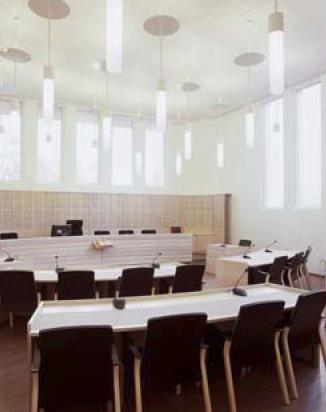 A courtroom in Raasepori district court, Finland